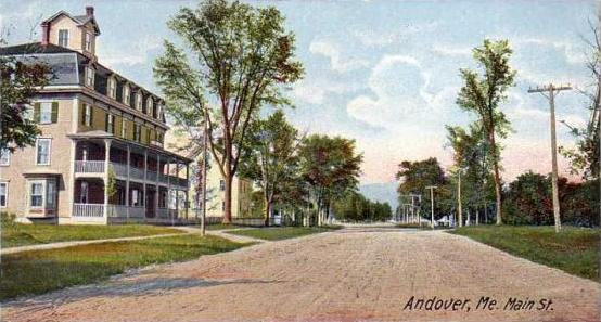 Main Street, Andover, Maine; from a c. 1906 postcard published by the Hugh C. Leighton Company, Portland, Maine.